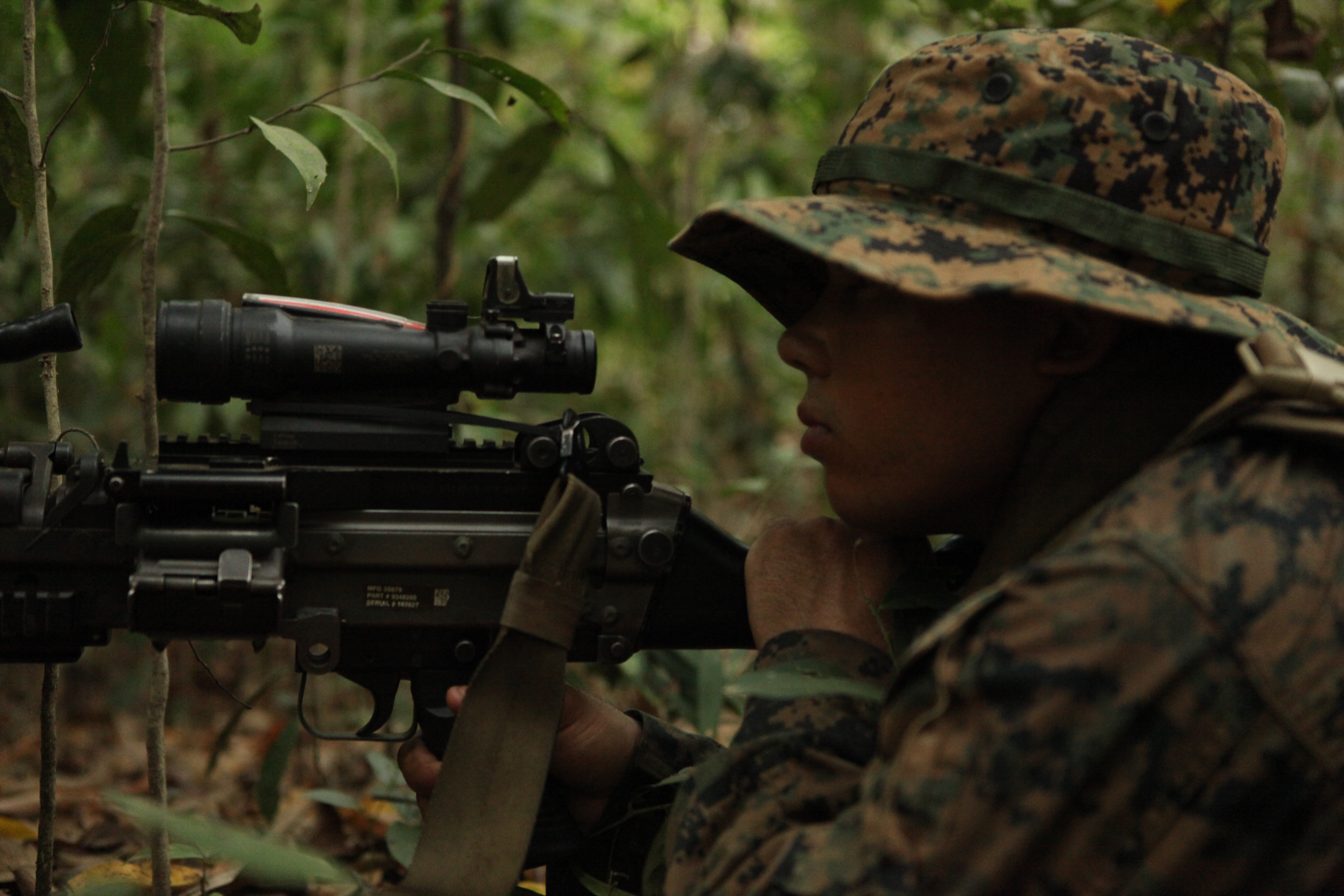 February 15, 2011, A U.S. Marine with Company E, Battalion Landing Team (BLT), 2nd Battalion, 5th Marine Regiment, 31st Marine Expeditionary Unit (MEU), 3rd Marine Expeditionary Brigade (MEB), provides security during a patrol through the jungle in Recon Camp, Kingdom of Thailand, in support of Exercise Cobra Gold 2011. For three decades, Thailand has hosted Cobra Gold, one of the largest land-based, joint, combined military training exercises in the world. A successful Cobra Gold 2011 results in increased operational readiness of U.S. and Thai forces and matured military to military relations between the two countries.